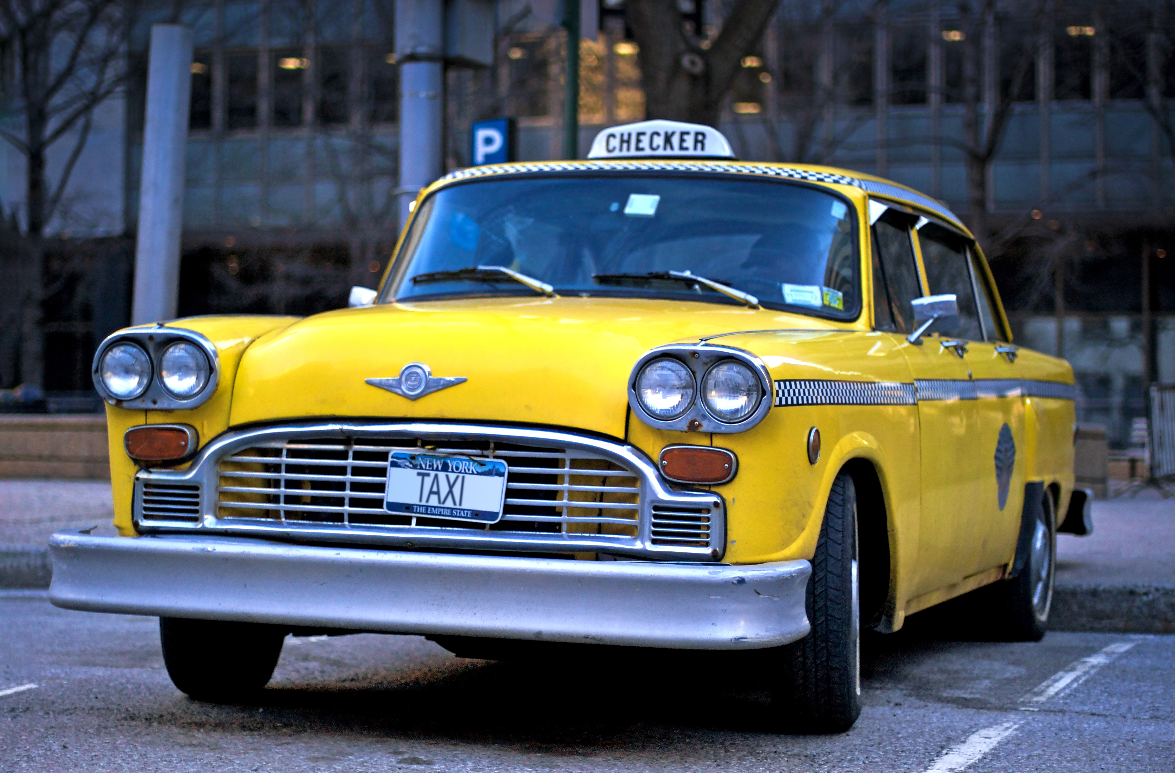 A Checker A-11 taxi cab with windshield wipers as used from 1978.